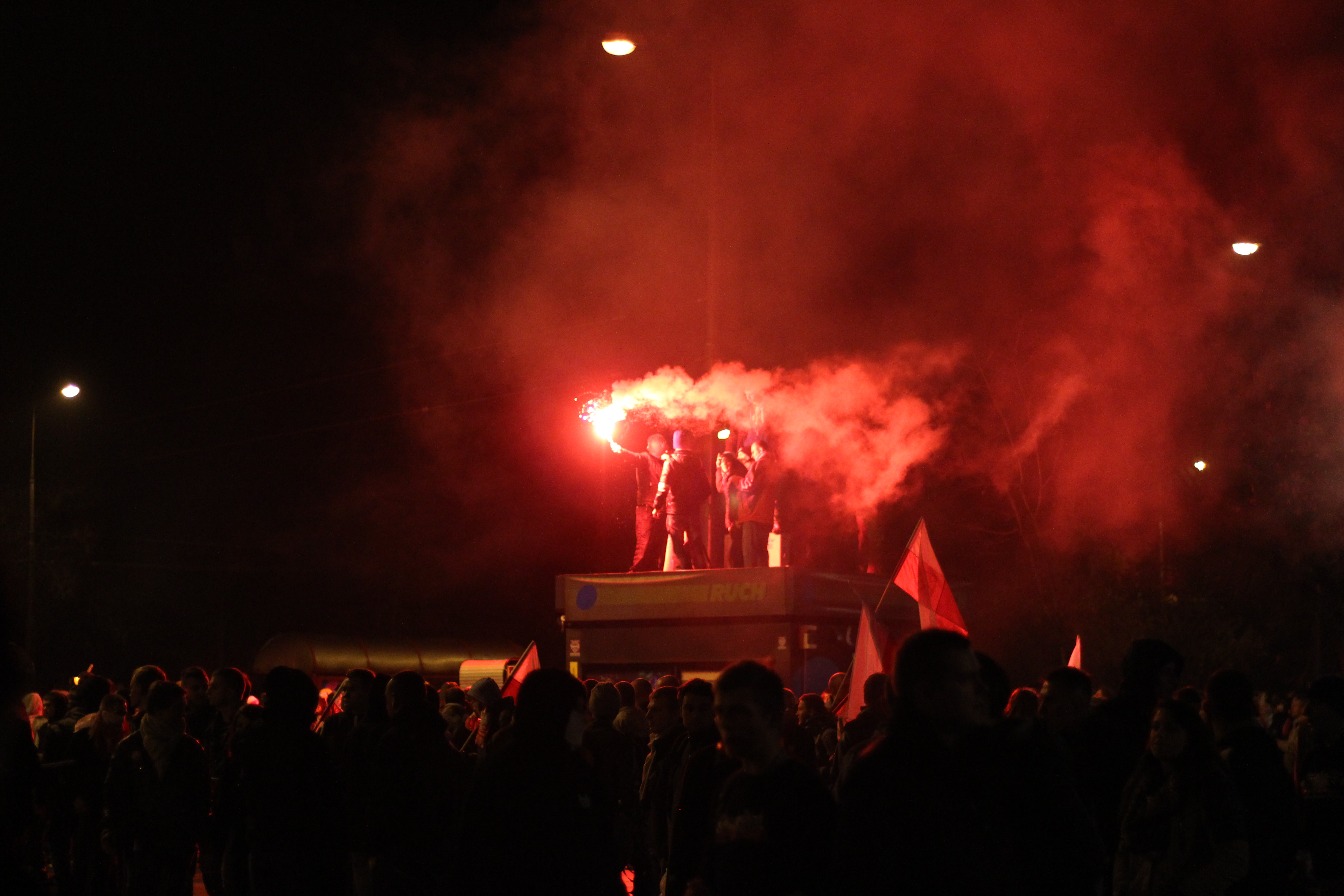 March of Independence in Warsaw. The march was initiated by the All-Polish Youth and the National Radical Camp, and it is organized by the Association of the March of Independence. Opponents accuse the March of promoting fascism, racism and anti-Semitism. In the picture: participants of the march are standing on the roof of the newsstand holding a red race.